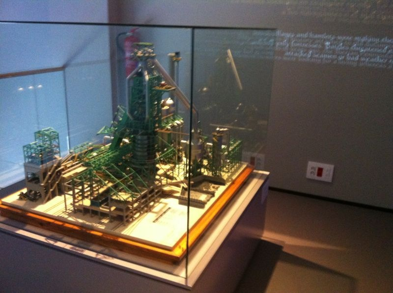 Maqueta de horno alto carmen